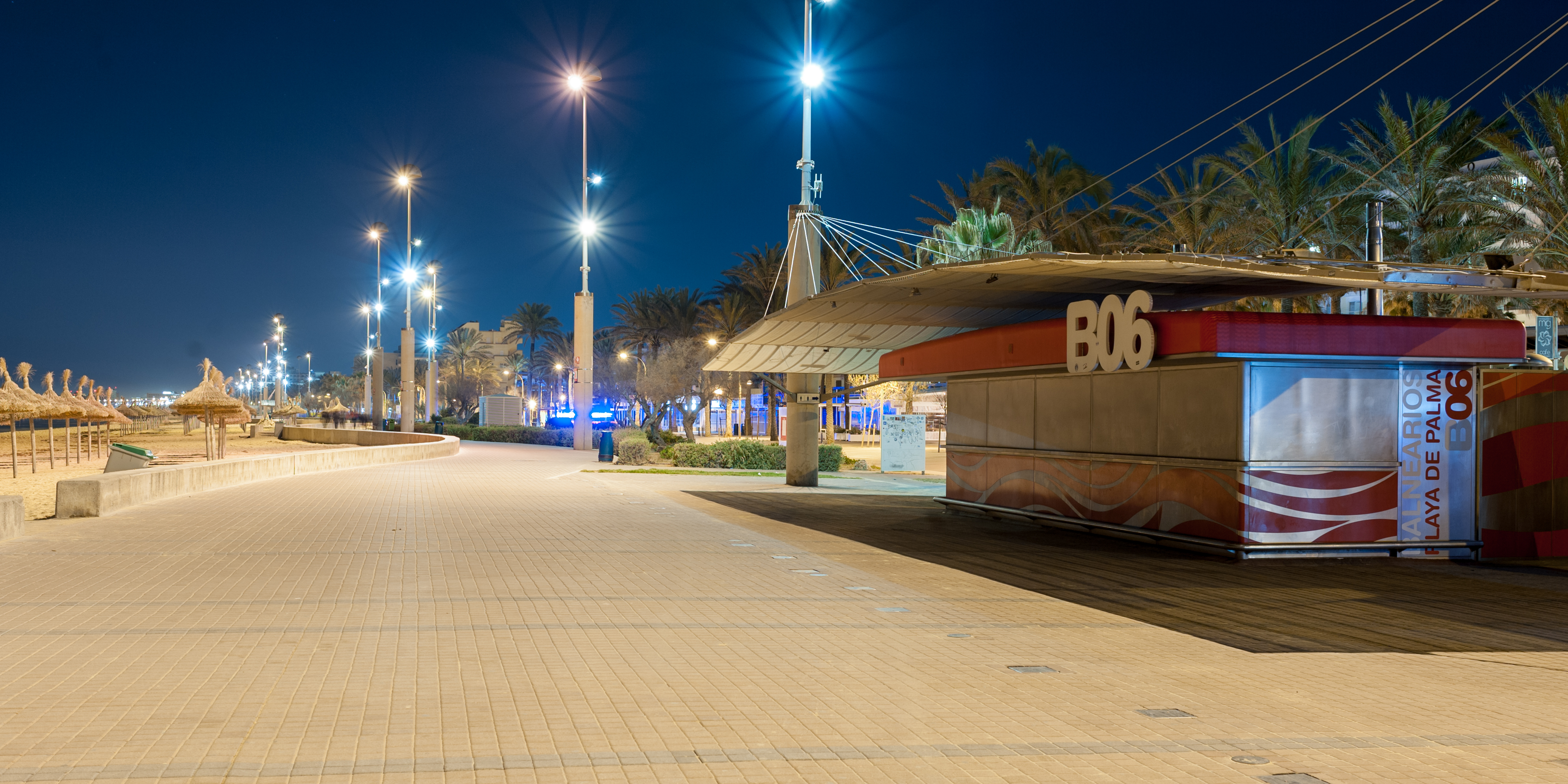 Platja de Palma, Balneario Nº 6